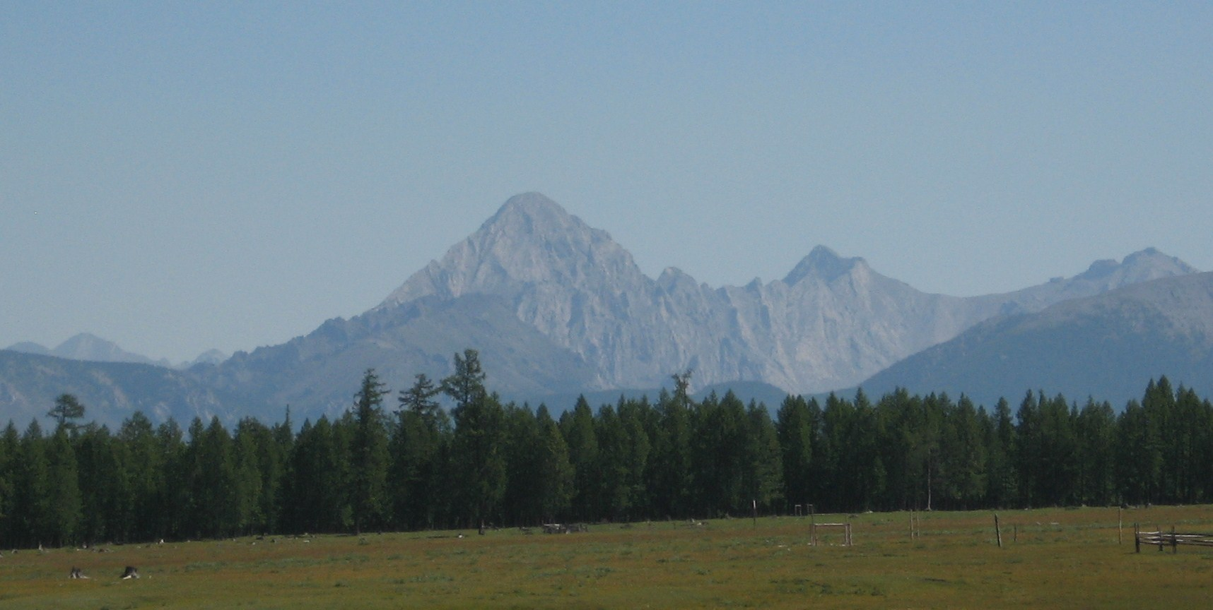 Mount Delgerhaan, Horidol Saridag Range, Hövsgöl aimag, Mongolia. Picture taken from the petrol station in Ulaan-Uul sum center